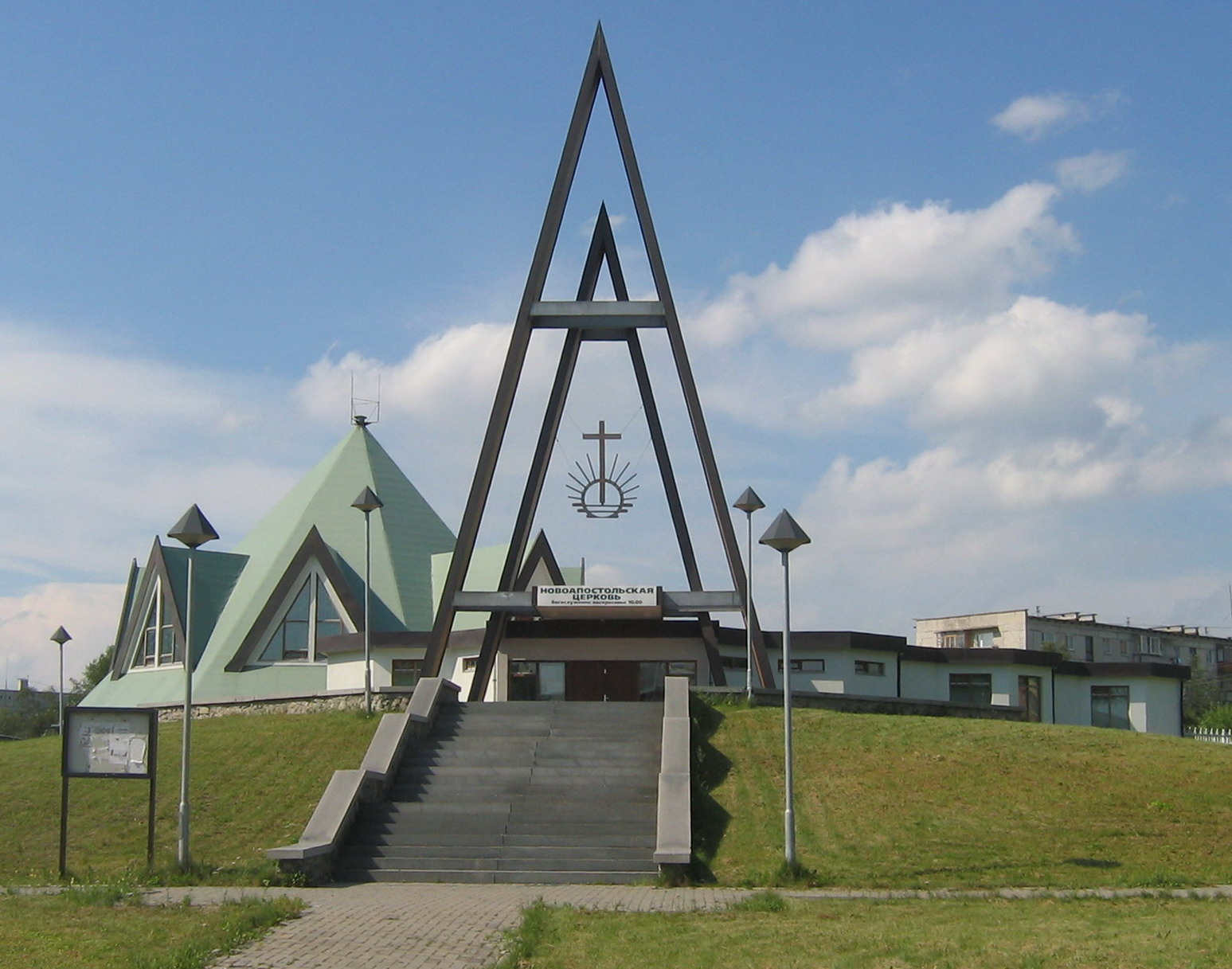 New Apostolic Church in Krasnoturyinsk (Sverdlovsk Oblast, Russia).